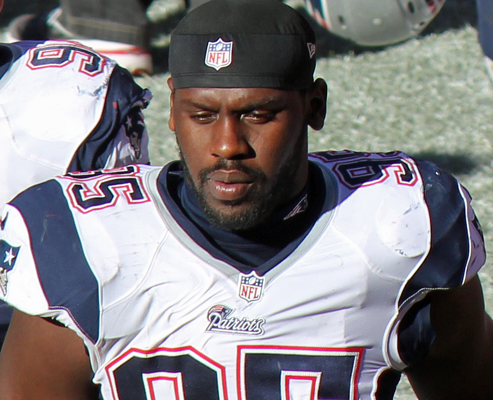 Chandler Jones, a player on the National Football League.